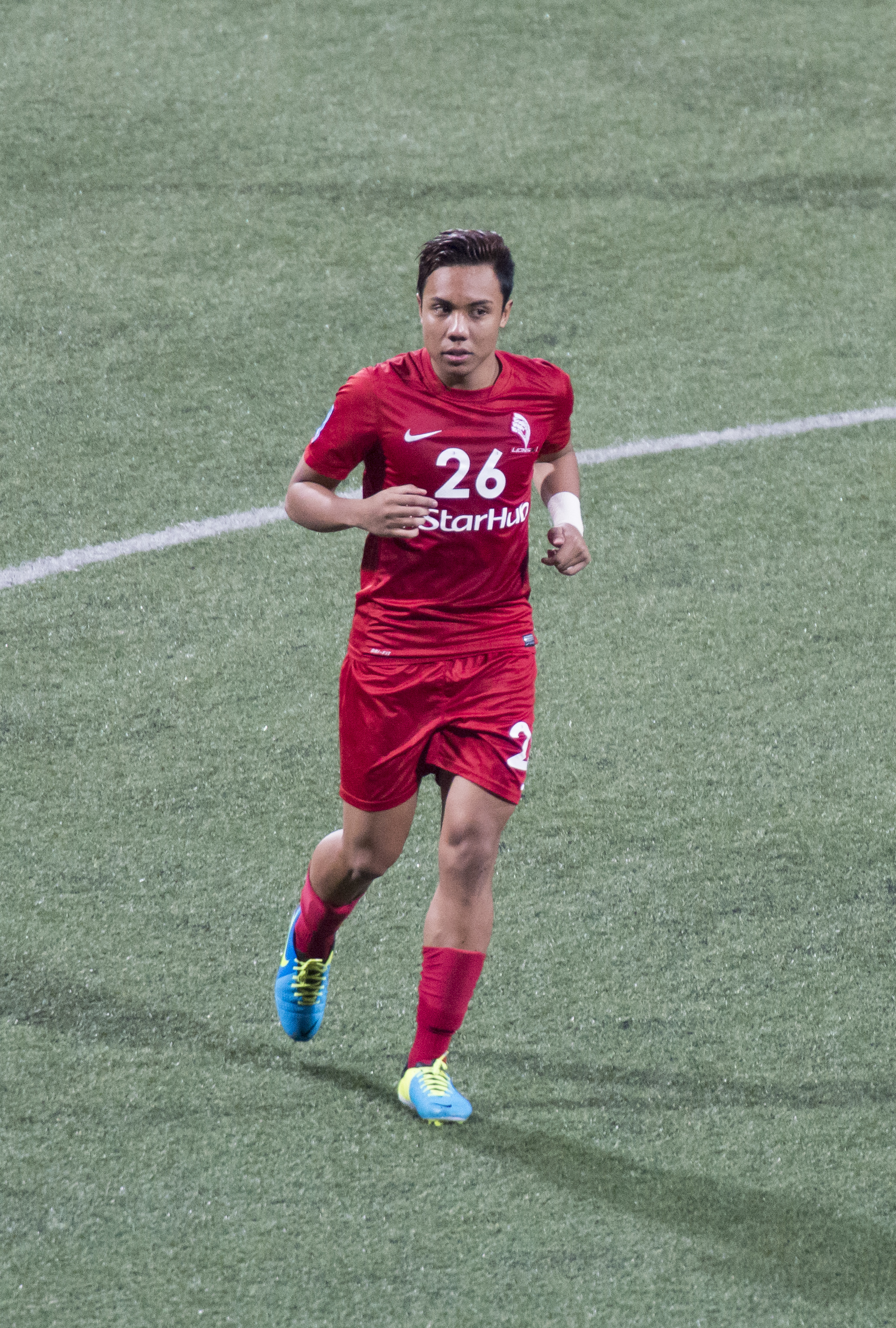 Shahfiq Ghani during the 2013 Malaysian Super League home game against FELDA United at Jalan Besar Stadium.